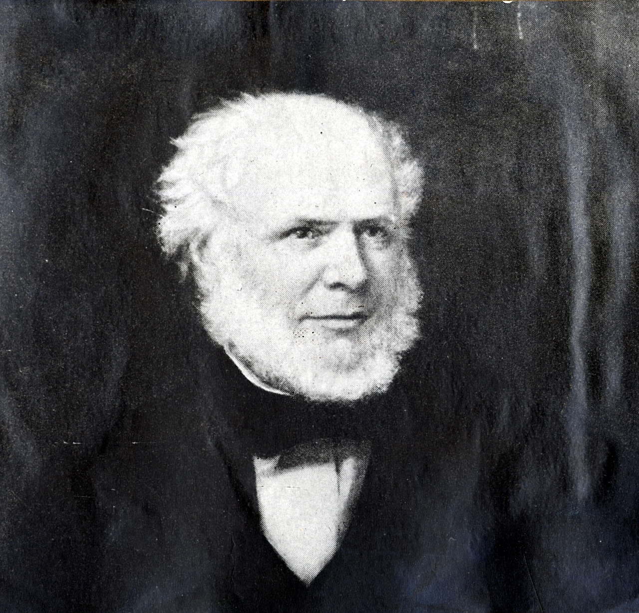 Photography of English pen maker Joseph Gillott.